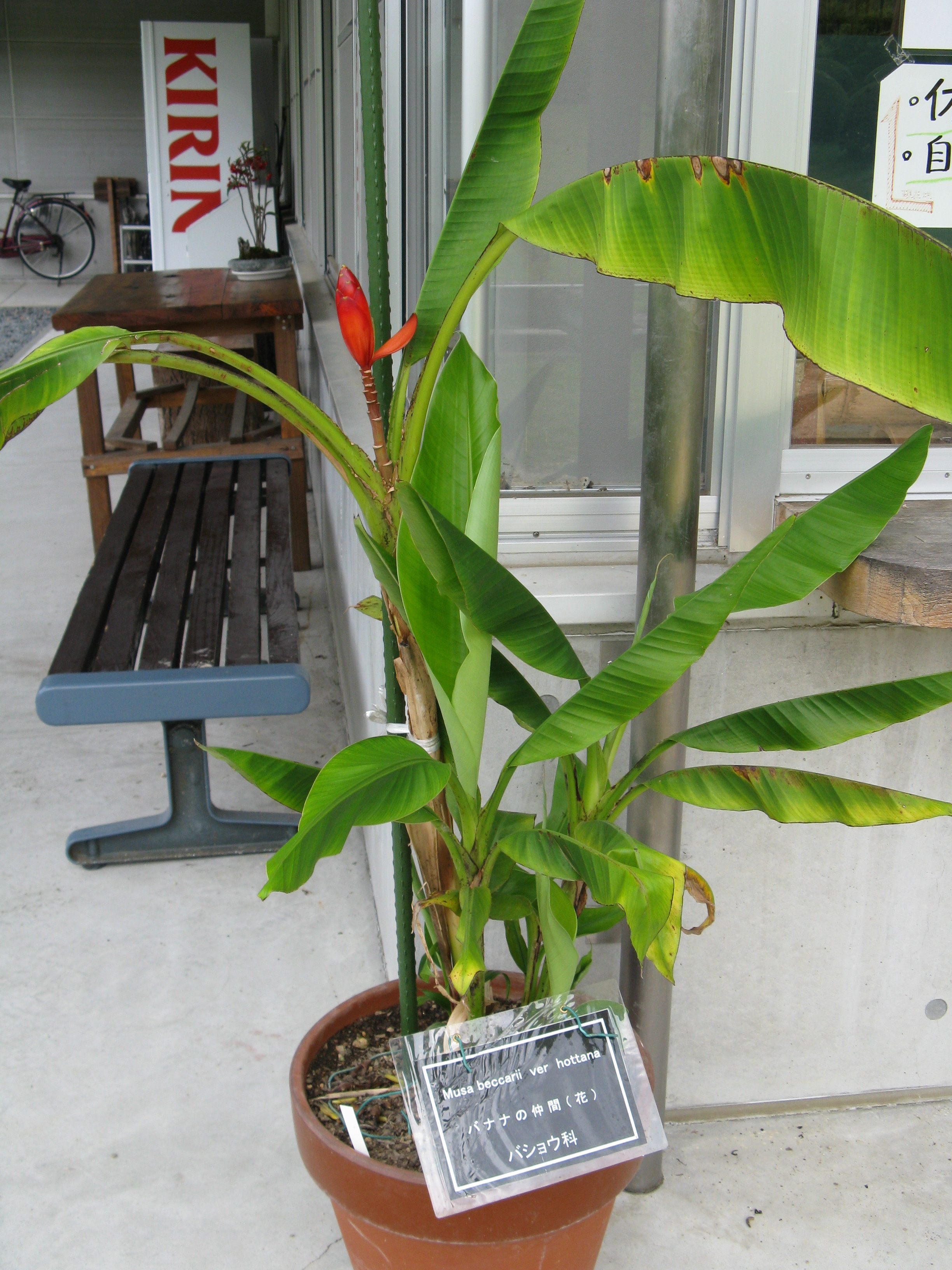 Scientific name Musa beccarii var. hottana Place:Botanical Gardens Faculty of Science Osaka City University,Osaka,Japan